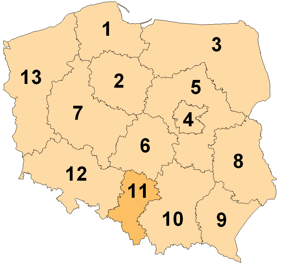 Silesian (European Parliament constituency) - European Parliament constituencie in Poland